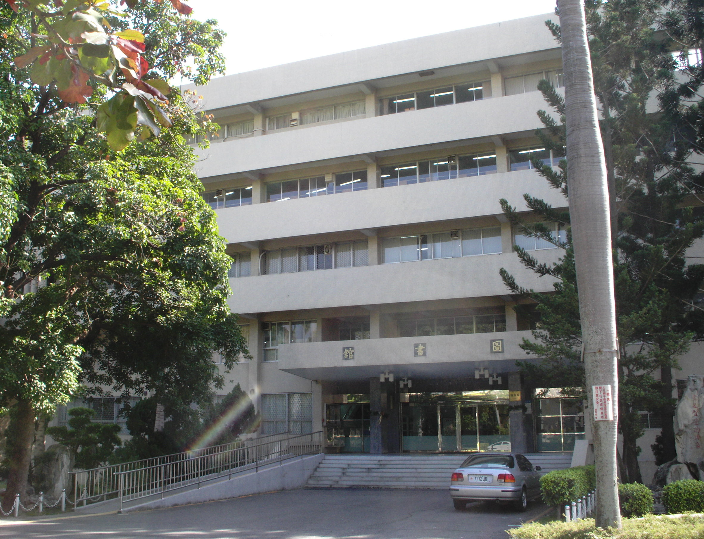 National Formosa University Library.中文（台灣）: 國立虎尾科技大學圖書館。 Bân-lâm-gú: Kok-li̍p Hûn-lîm Kho-ki Tāi-ha̍k tôo-su-kuán. 國立虎尾科技大學圖書館。